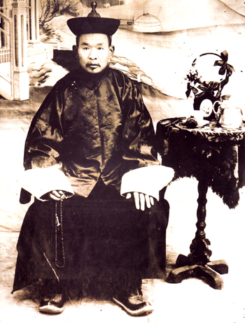 Tserenchimed